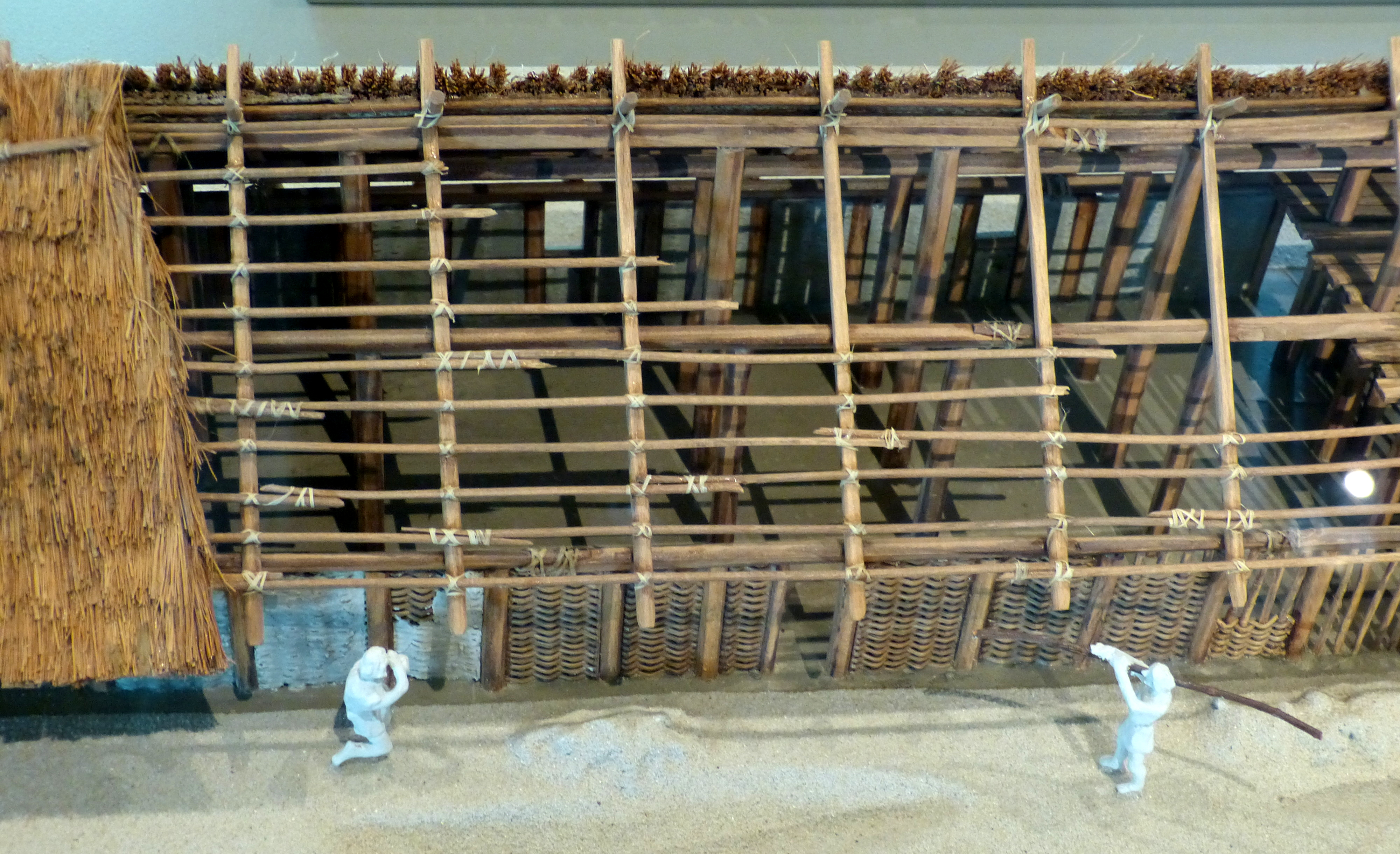 Landau an der Isar ( Lower Bavaria ). Archaeological Museum of Lower Bavaria: Model of a neolithic house.